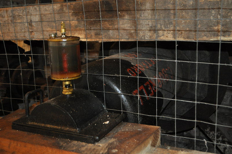 Euston Watermill - Interesting Axle, near to Euston, Suffolk, Great Britain. The only axle known in existence built by traction engine manufacturer Charles Burrell and Sons. The company was based in Thetford, 3 miles from here. Link